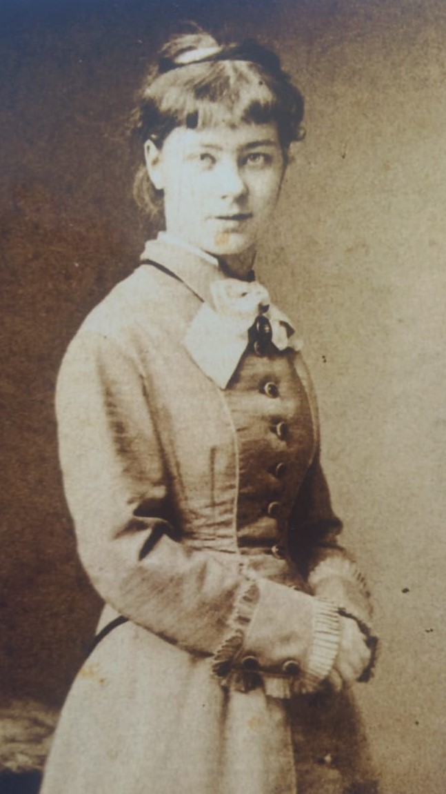 picture of the german artist Eva Stort